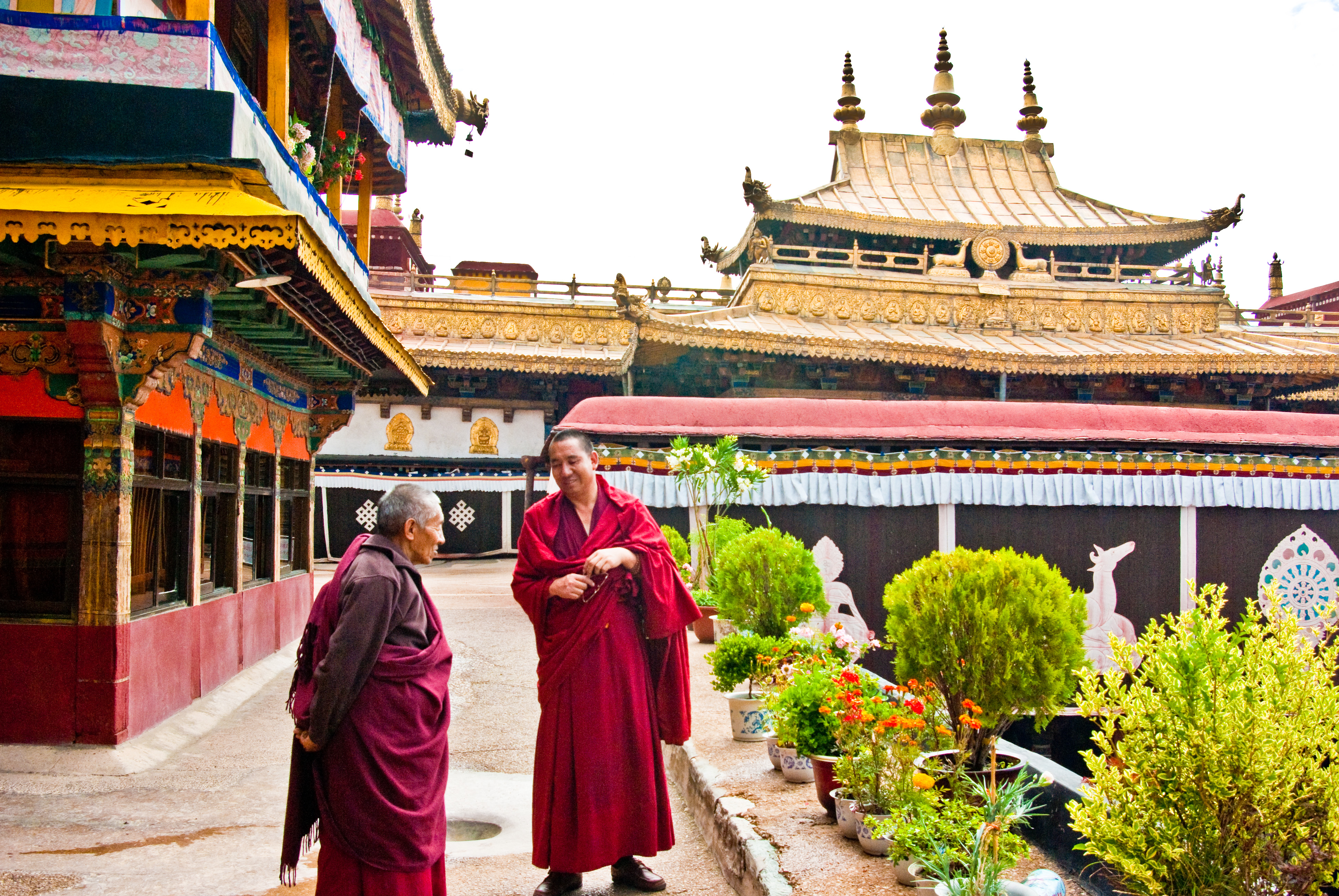 Jokhang